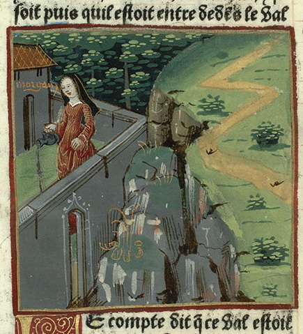 Paris, Bibl. Mazarine, Inc. 1286 Page f. 223 Subject: Morgane at Val sans Retour Keywords: miniature , literary scene , witchcraft , Morgan , pouring , jug , liquid food , dwelling , court , rock , road , forest Notes: Morgane the fairy, sister of Arthur, literally spreads her enchantments on the Val Without Return, or Val of False Lovers. Name registration: 'Morgain'. Manuscript title: Lancelot in prose (part of) Origin: Northern France (Paris)